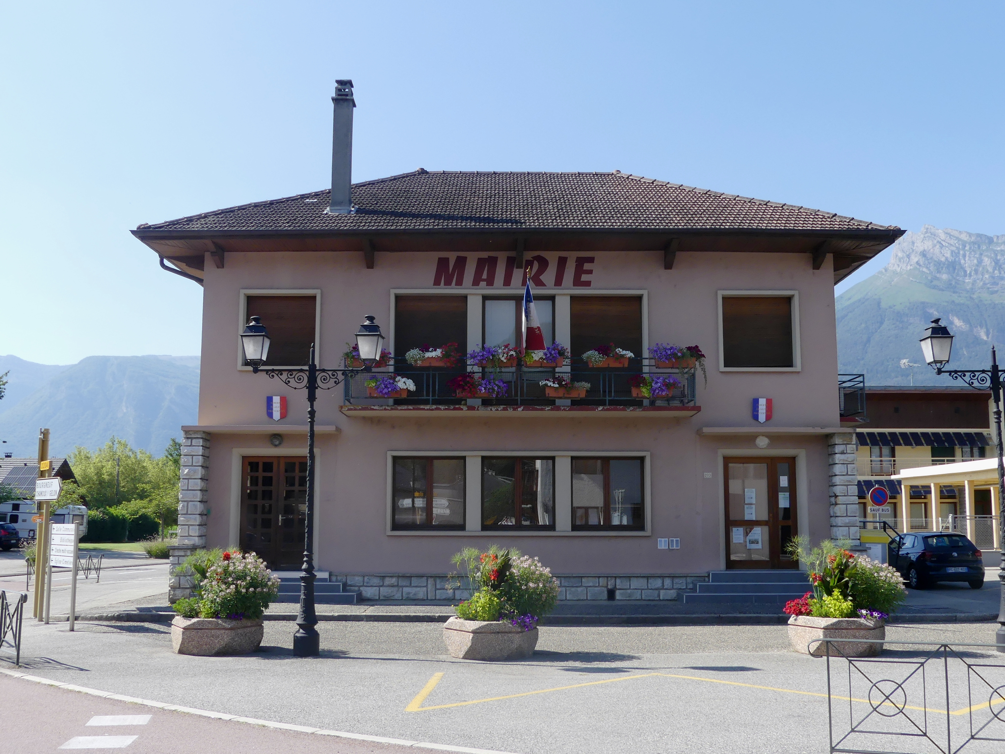 Sight, in the evening, of Châteauneuf town hall, in Savoie, France.